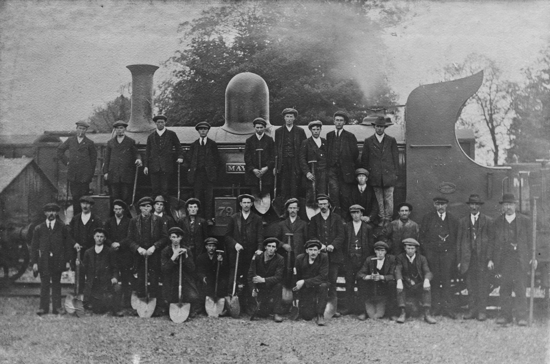 Bit of a cheat adding this as the pic for 31 July, as we believe that the original photo was taken long before 1943, but this copy was certainly produced on 31 July 1943! It was ordered by a Mr John Gorry, of Derrykearn, Abbeyleix, Co. Laois. While this is a great shot, it's a shame that the railway workers are obscuring most of the details of the engine. Even with that problem, abandoned railways says: "With the open cab design, this is pre turn of the century. Common design for 1880-90" Date: Saturday, 31 July 1943 NLI Ref.: P_WP_4417